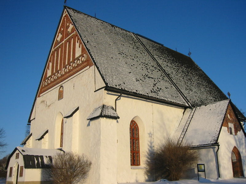 Porvoo Cathedral in Porvoo, Finland in January 2006